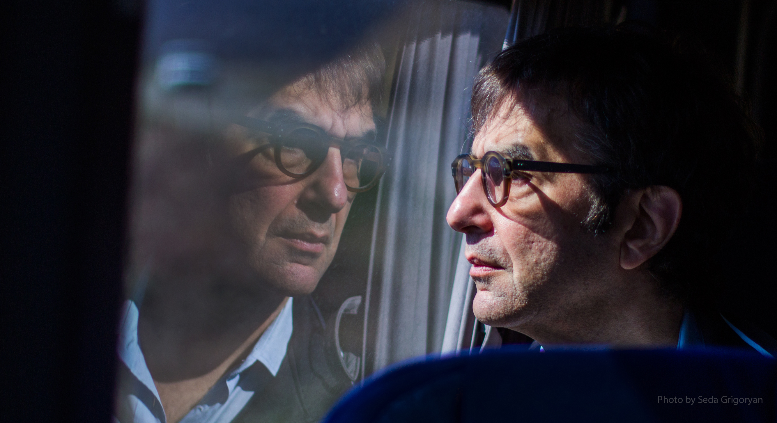 Atom Egoyan in Armenia, April 2017. Photo by Seda Grigoryan